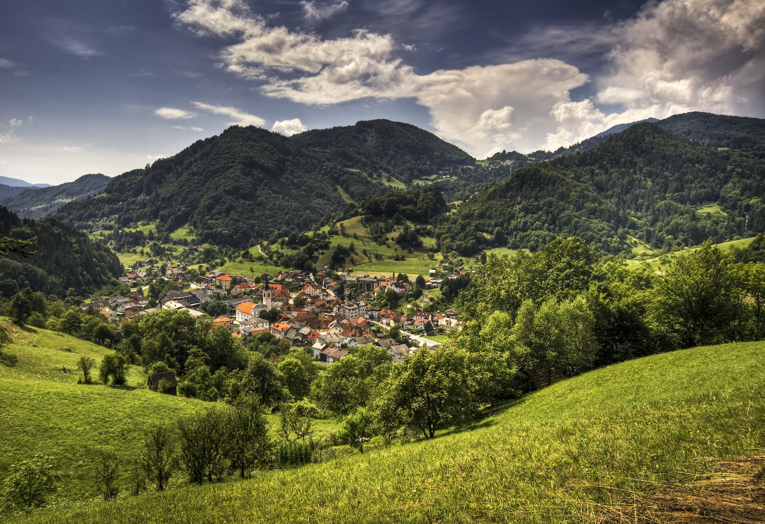 Cerkno